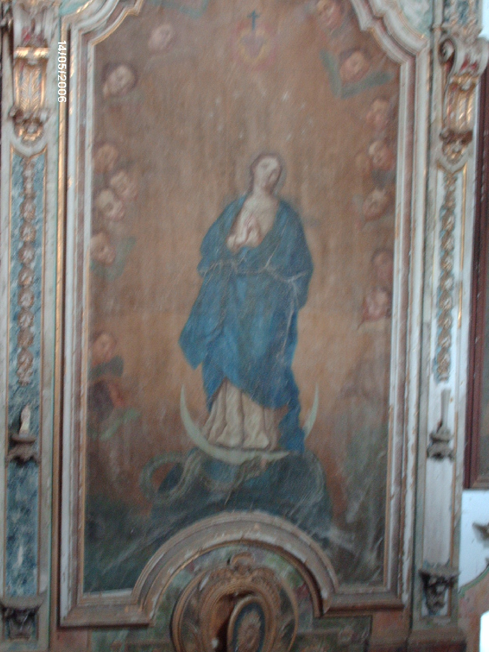 Igreja de Nossa Senhora da Conceição